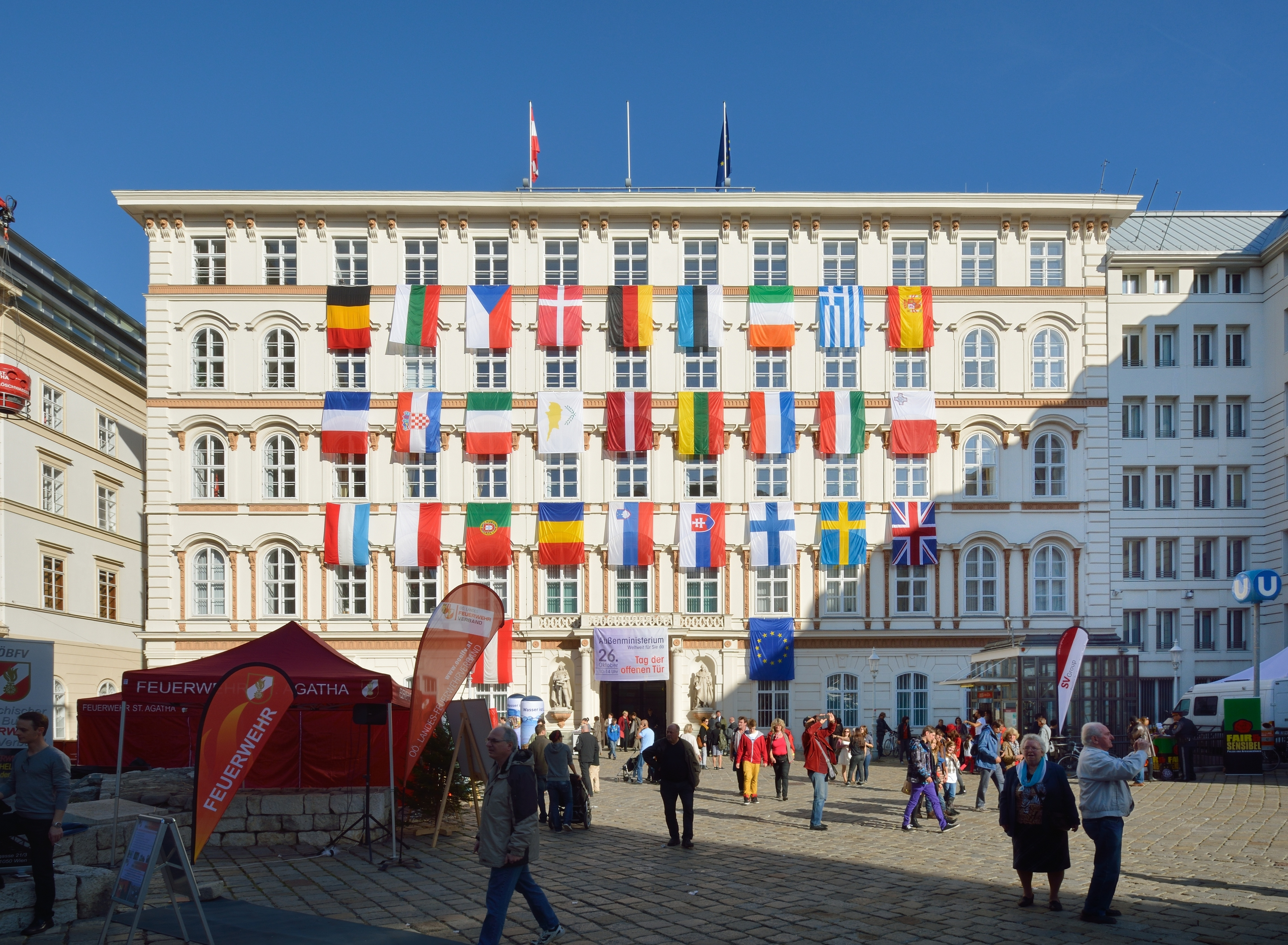 Austrian Ministry for International Affairs on Austrian National Holiday (26th of Oktober) Personality rights warningAlthough this work is freely licensed or in the public domain, the person(s) shown may have rights that legally restrict certain re-uses unless those depicted consent to such uses. In these cases, a model release or other evidence of consent could protect you from infringement claims.